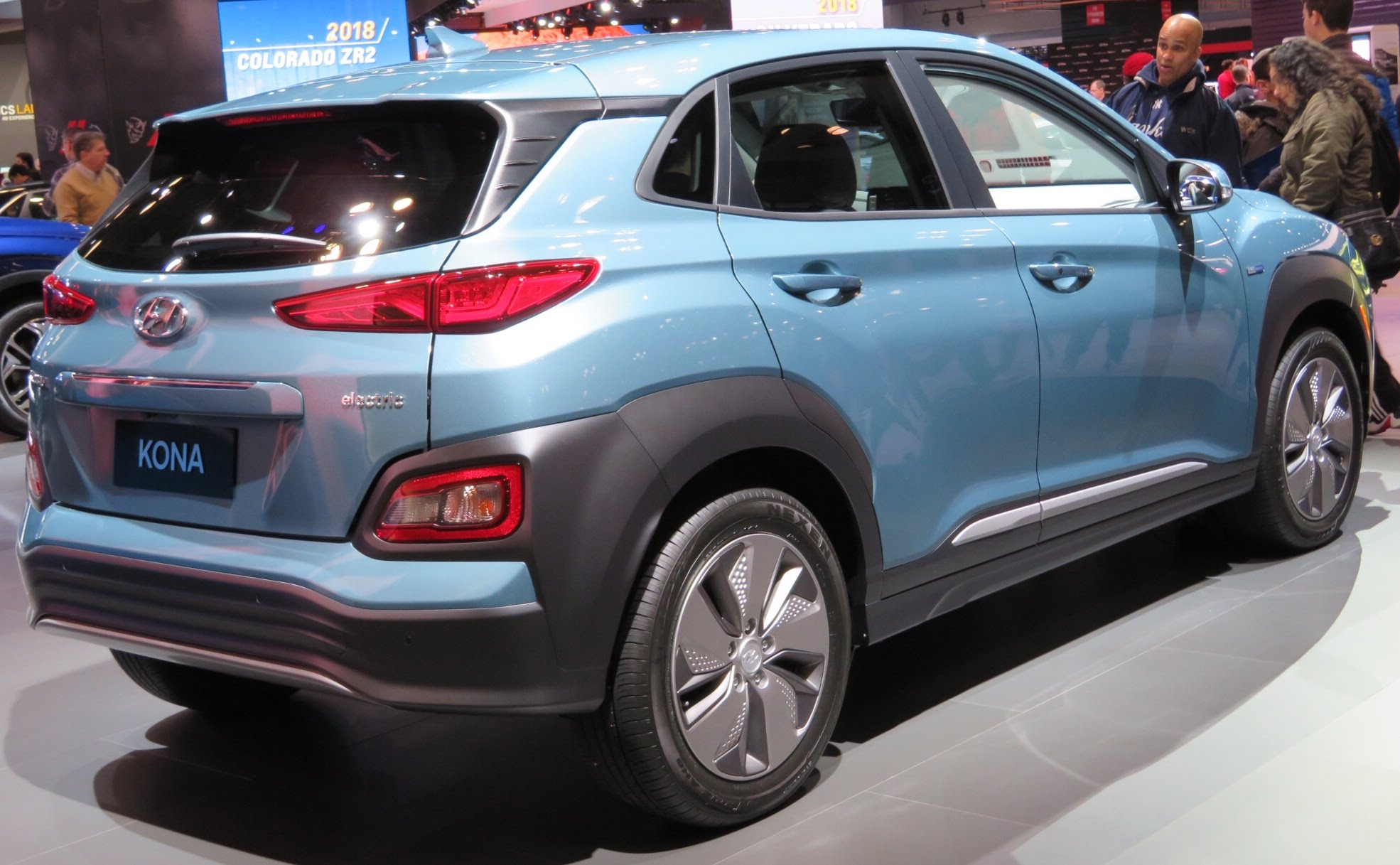 In New York International Auto Show, at Manhattan, New York, USA